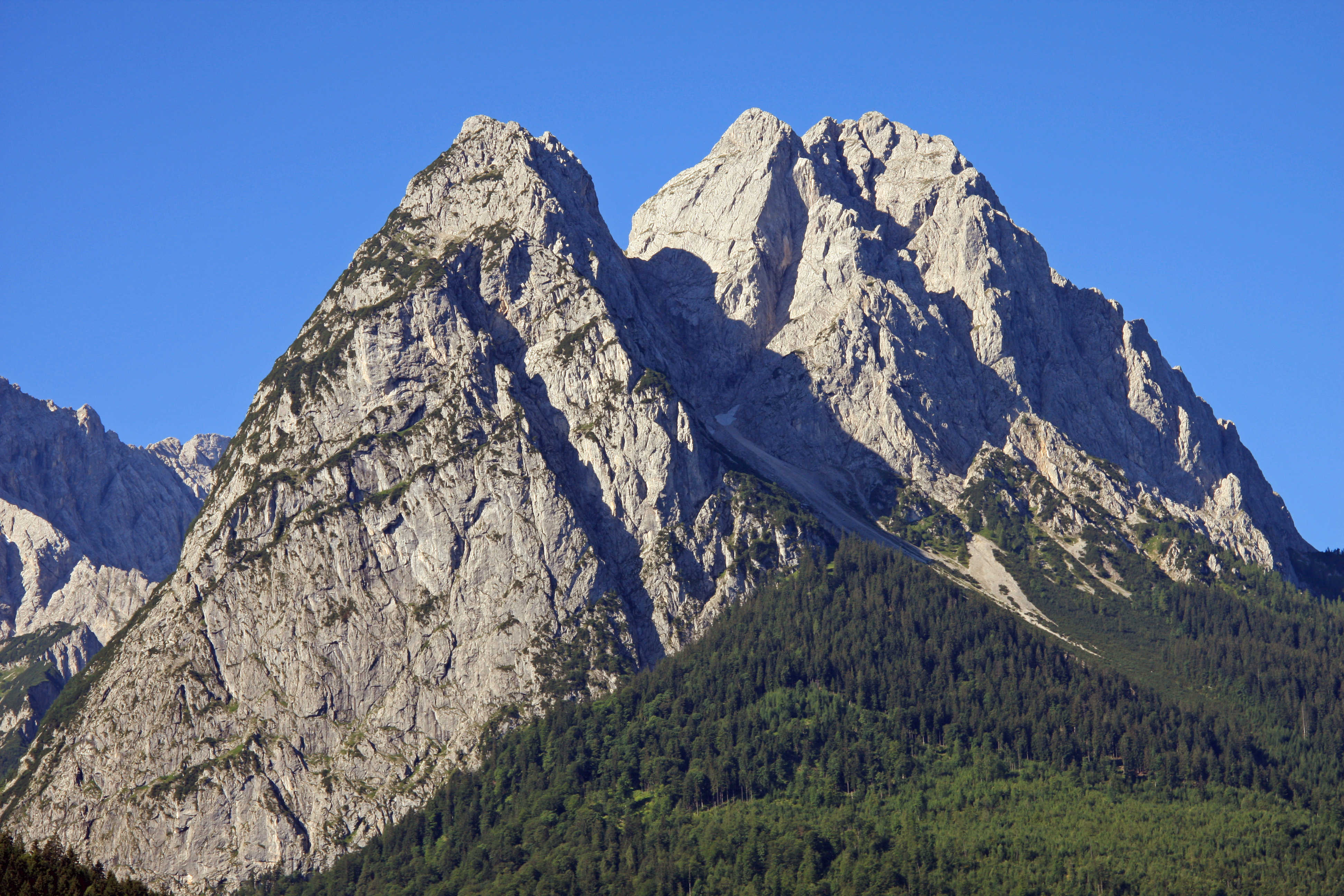 Waxensteine